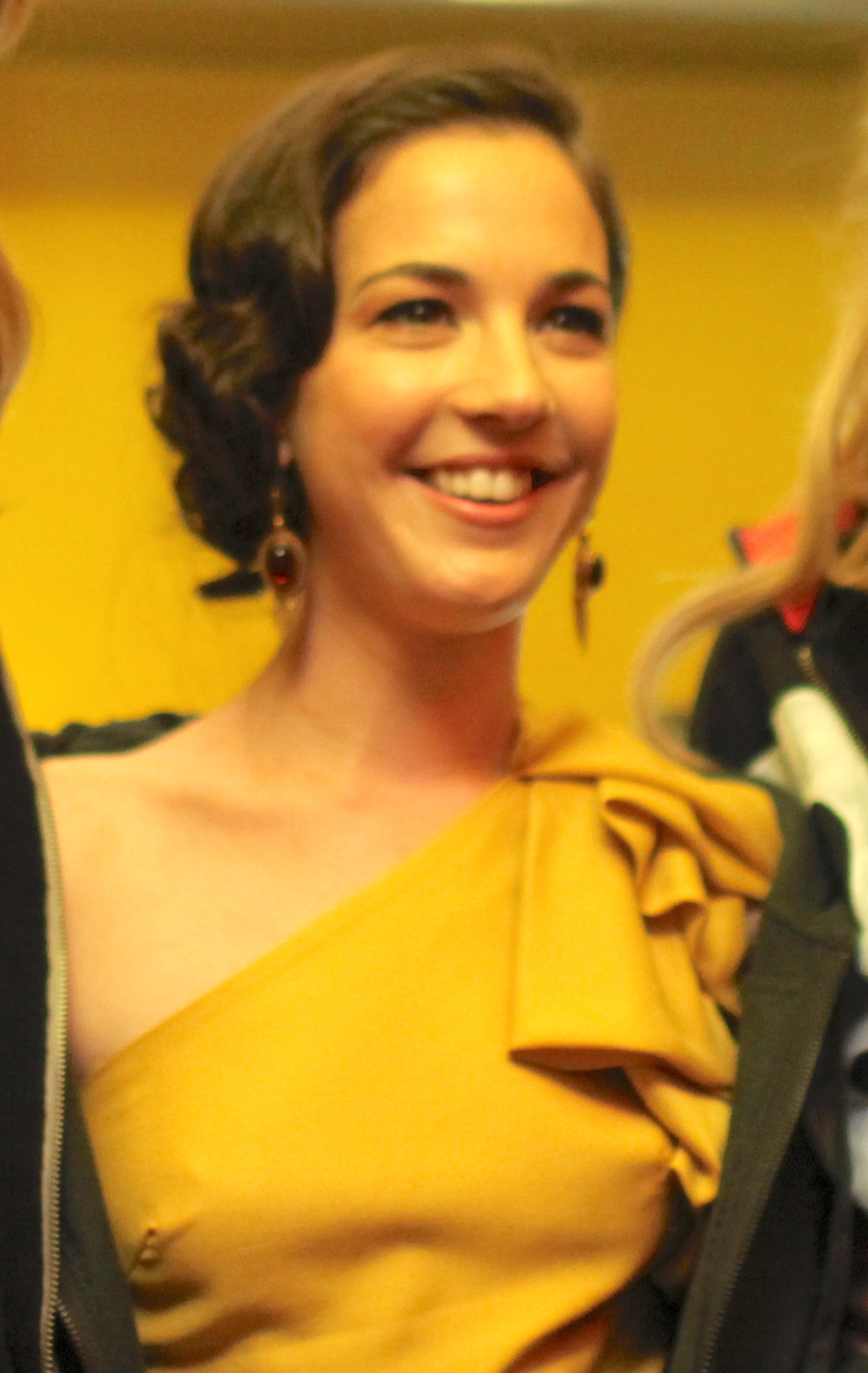 Martha MacIsaac at 2009 premiere of Last House on the Left